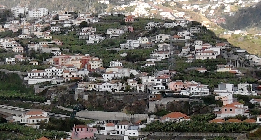 General view of Panasqueira, Câmara de Lobos, Madeira Island